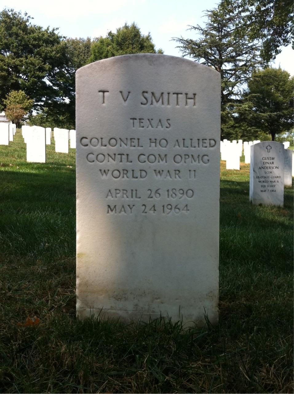 Grave of Thomas Vernor Smith at Arlington National Cemetery